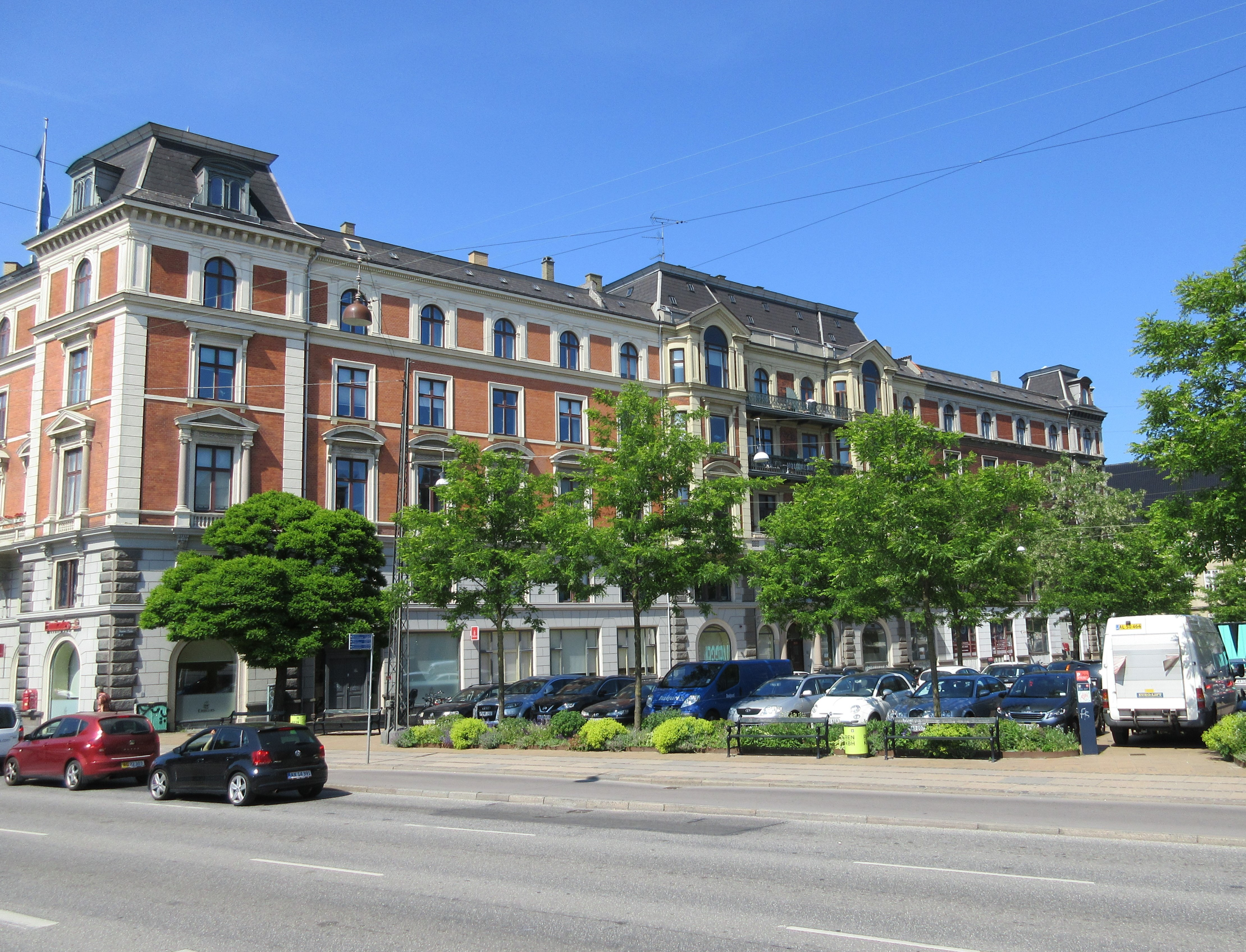 The northwest side of Dantes Plads in Copenhagen, Denmark